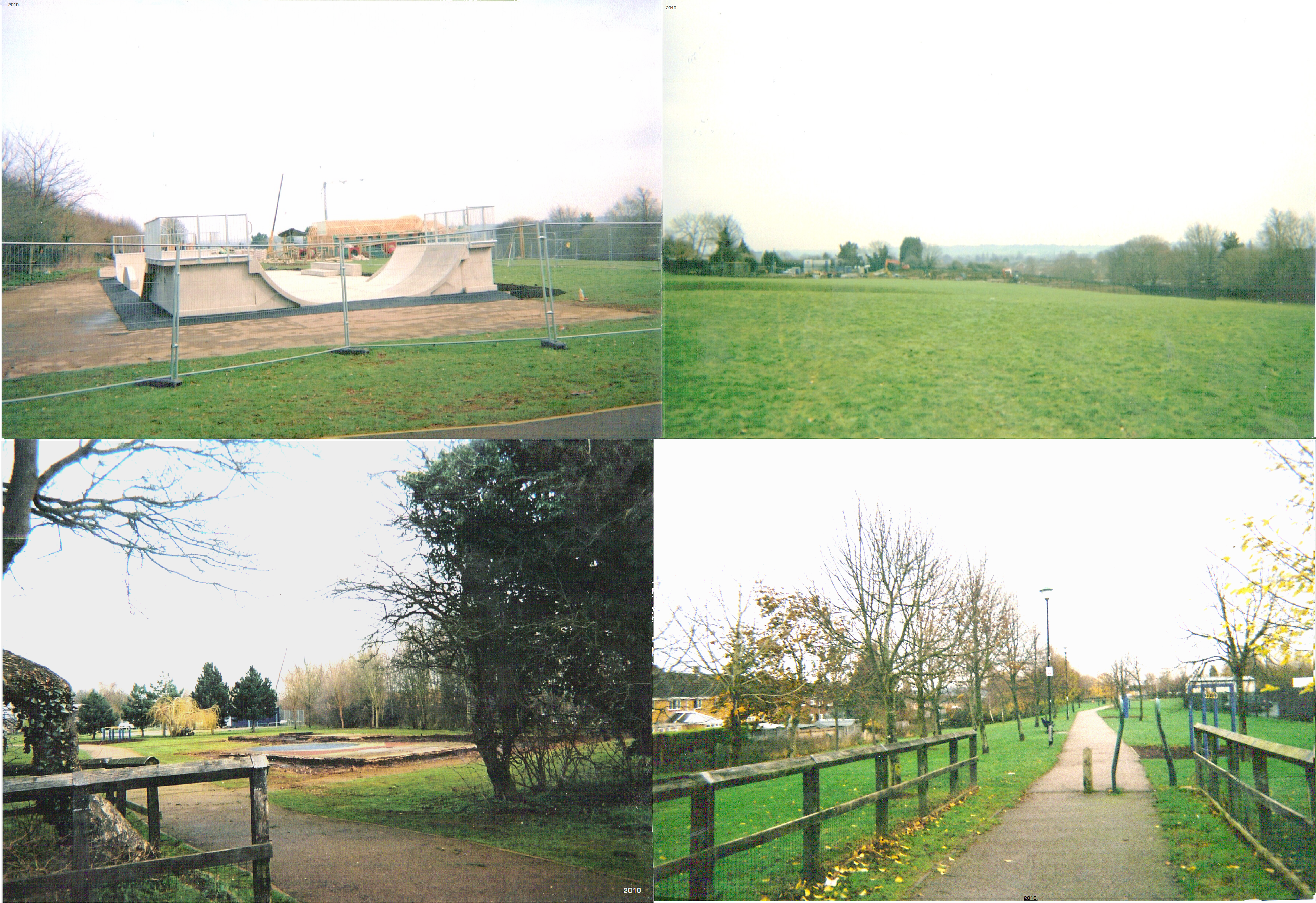 I took this picture of Princess Diana Park, in Banbury's Bretch Hill estate my self. I here by release it in to the public domain.